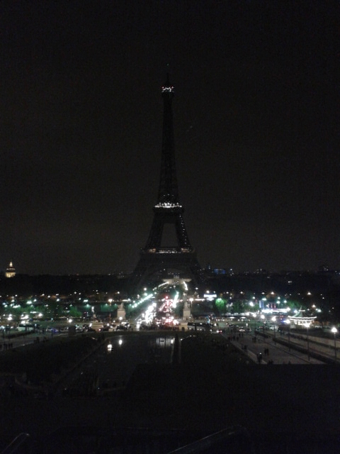 Eiffel Tower going dark for the centenary of the Armenian Genocide.